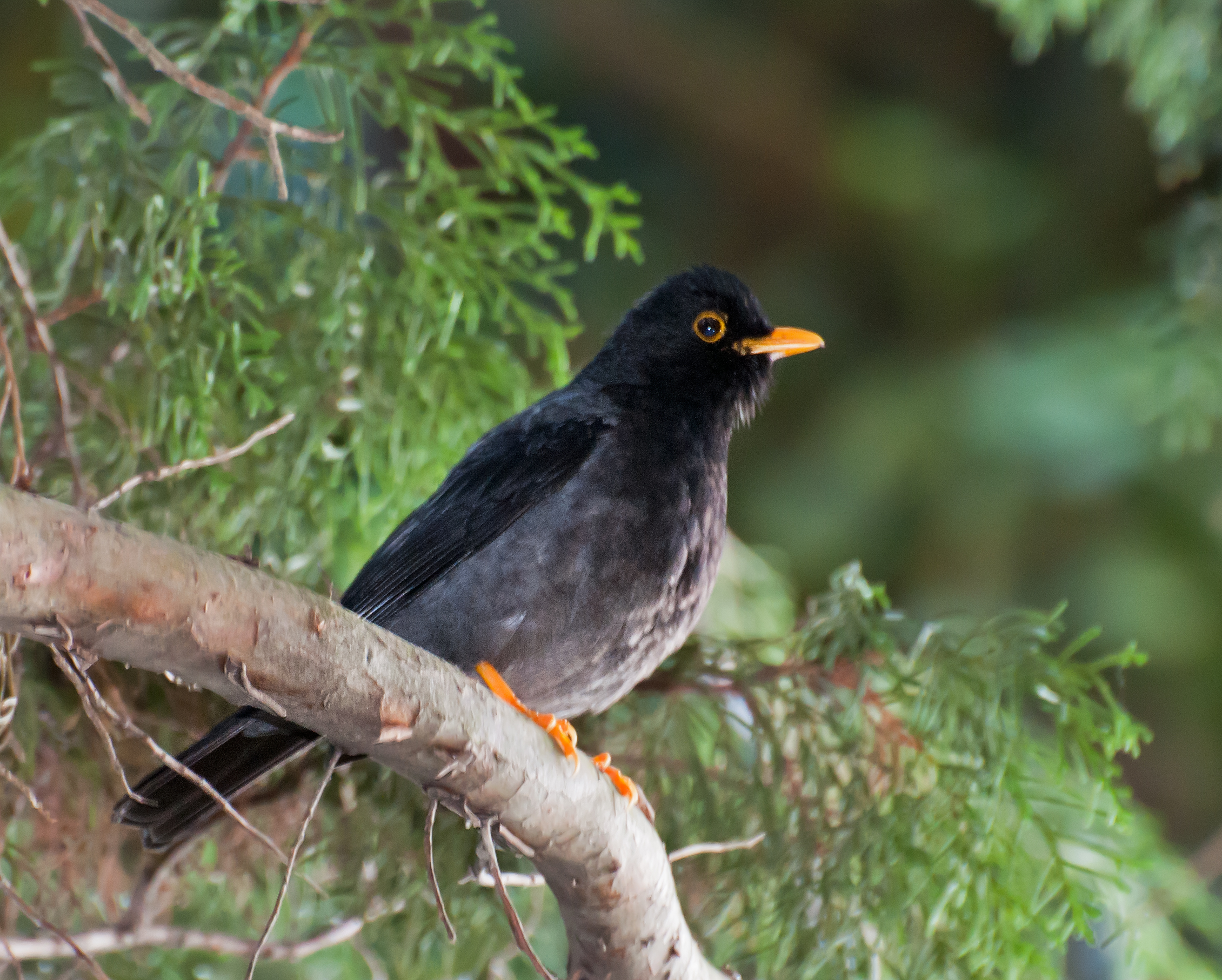 An adult male Yellow-legged Thrush in Parque Estadual da Serra da Cantareira, São Paulo, Brazil.